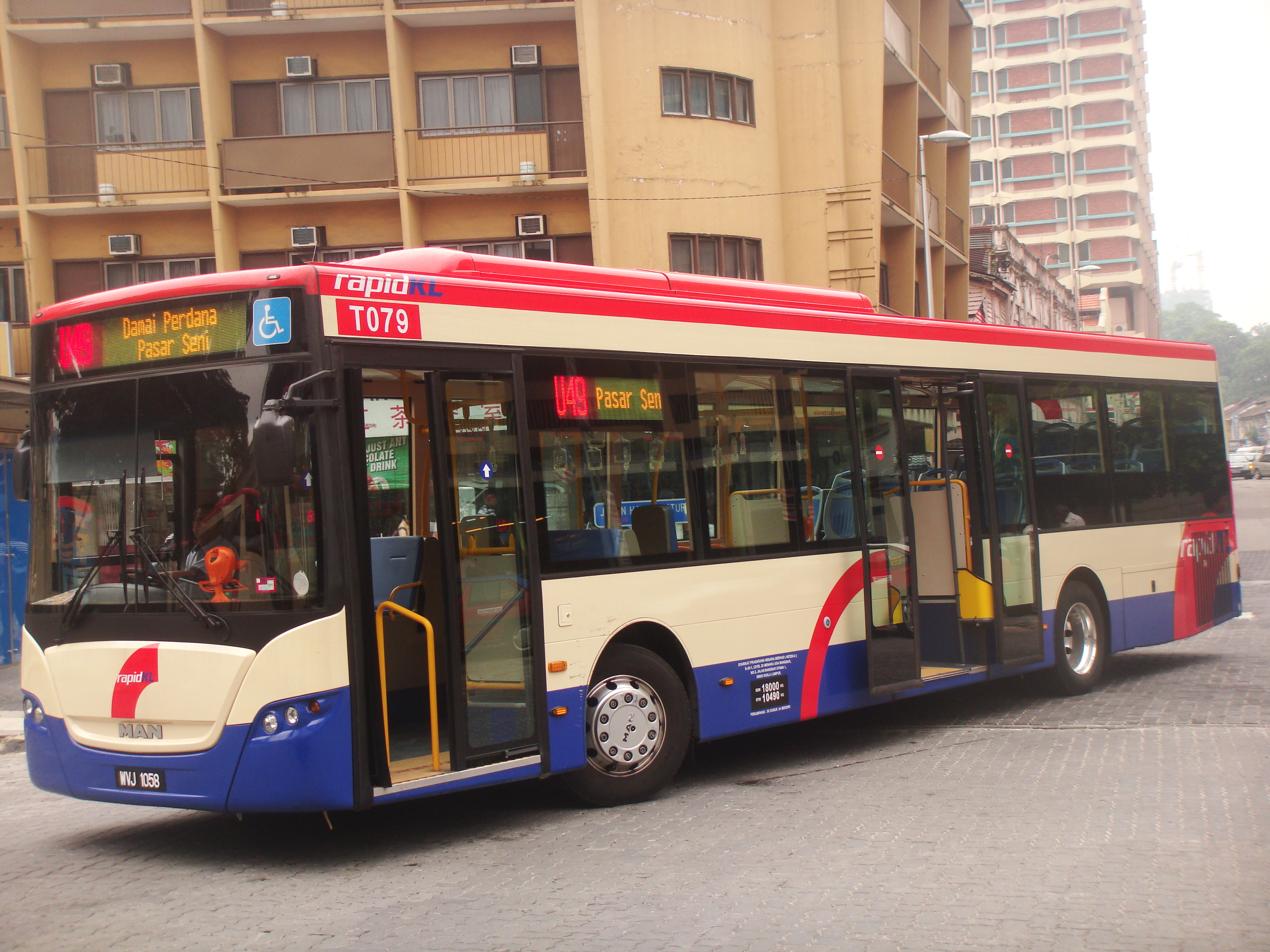 Bus (#T079) with MAN 18.280 HOCL-NL chassis operated by RapidKL in Kuala Lumpur, Malaysia.